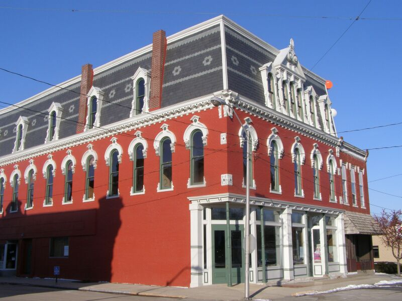 Vurpillat's Opera House on Courthouse Square, Pulaski County, Indiana